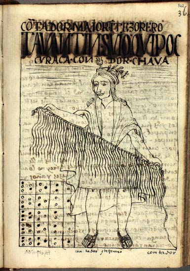 Sketch of a Quipucamayoc from El primer nueva corónica y buen gobierno (The First New Chronicle and Good Government), a chronicle of Inca history by the indigenous Inca historian Felipe Guaman Poma de Ayala (ca. 1535–1616). Shown on the lower left side is a yupana.